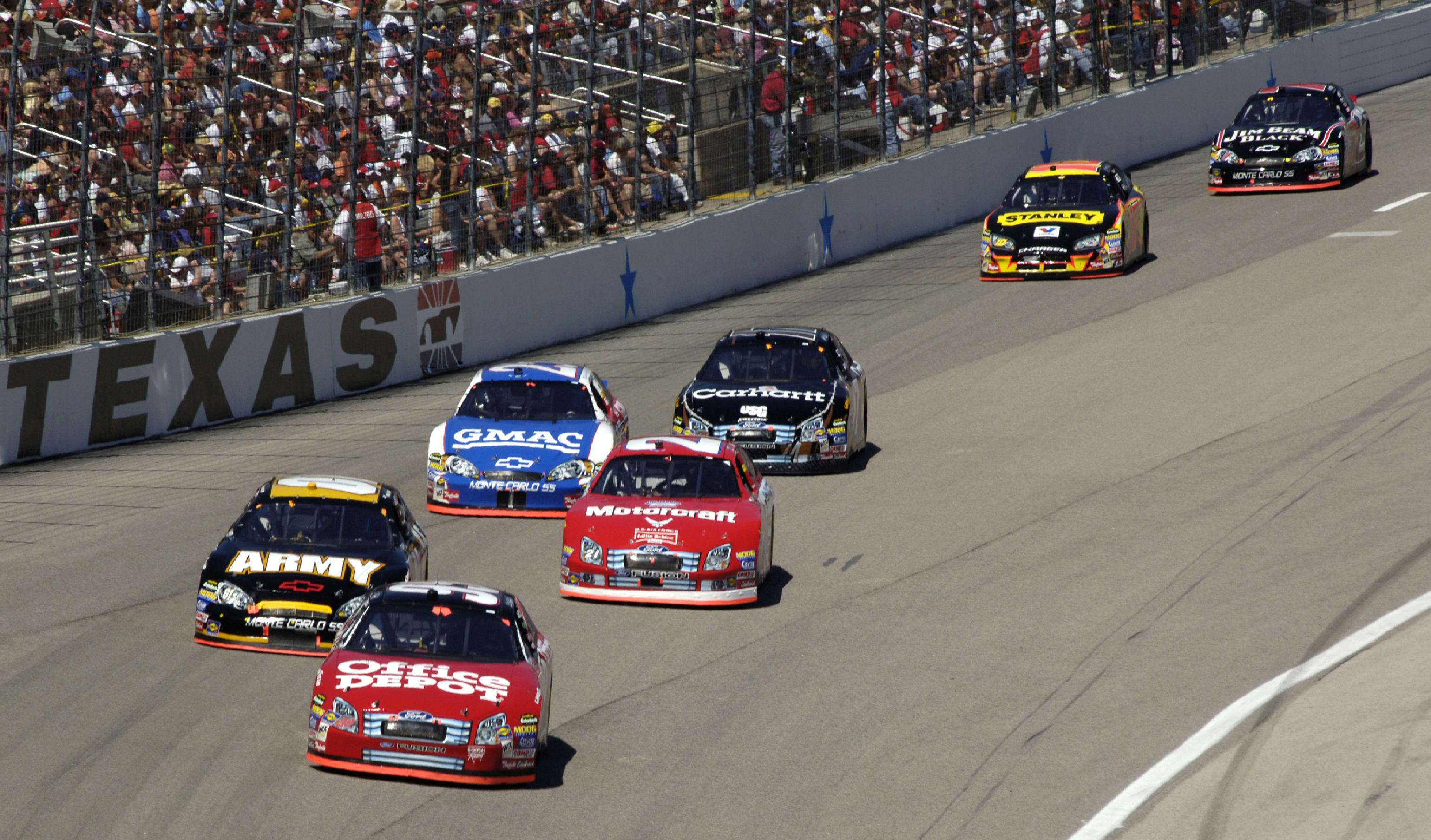 Samsung/RadioShack 500 on Sunday, April 9, 2006, at Texas Motor Speedway